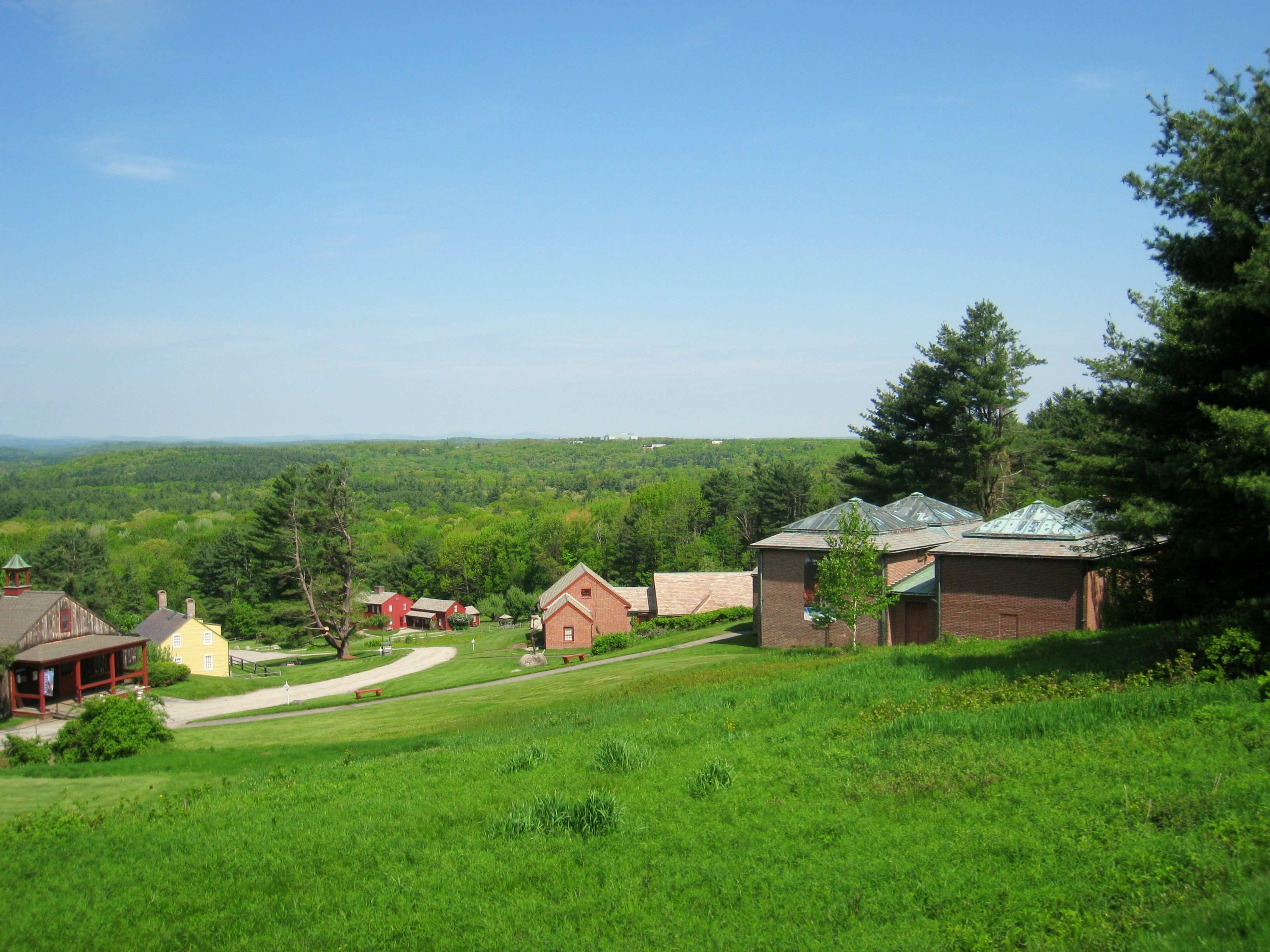 Fruitlands Museum, Harvard, Massachusetts, USA. General view of buildings.